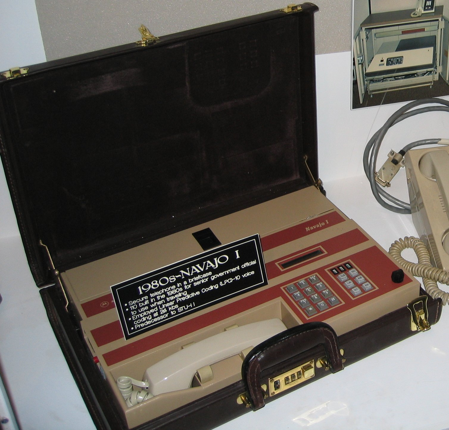 Navajo-I secure telephone on on display at the National Cryptologic Museum in 2005.